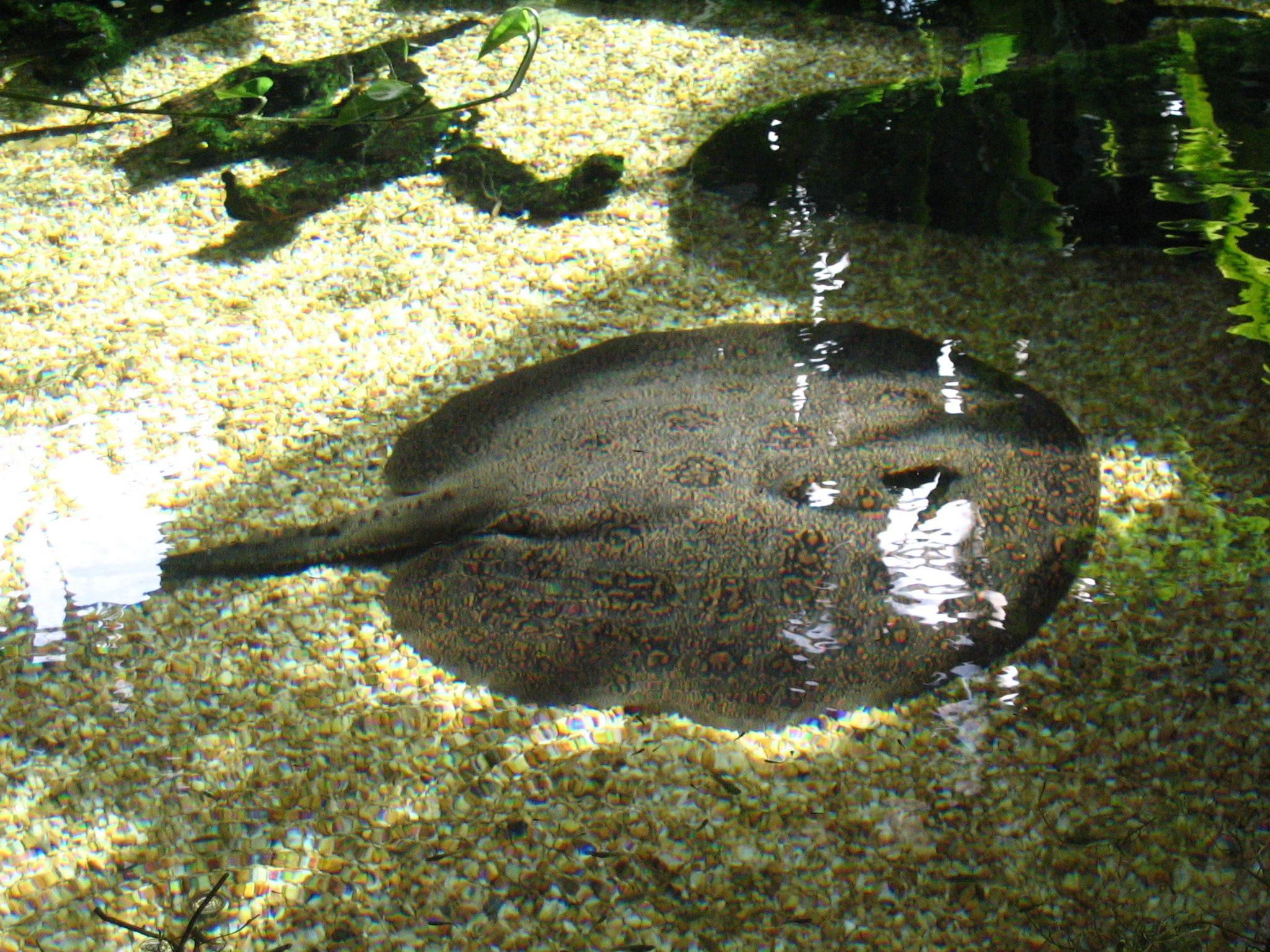 Smooth back river stingray (Potamotrygon orbignyi) at the National Zoo